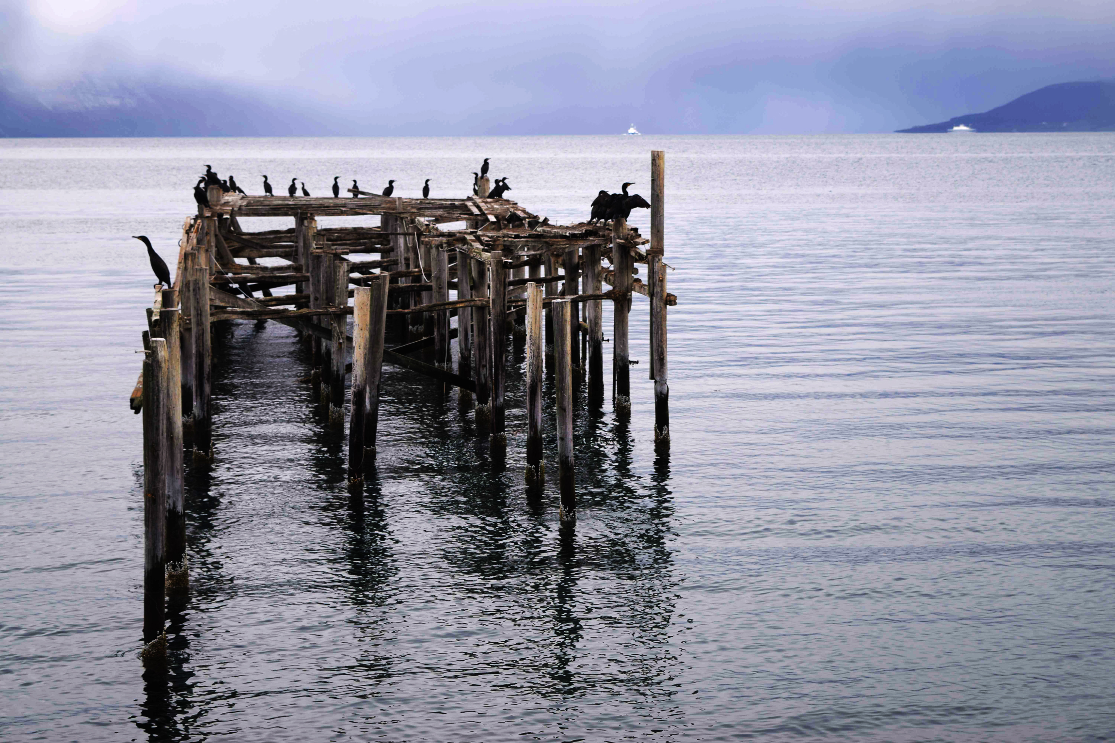 Wharf in Jøvik village, municipality of Tromsø, Troms county, Norway